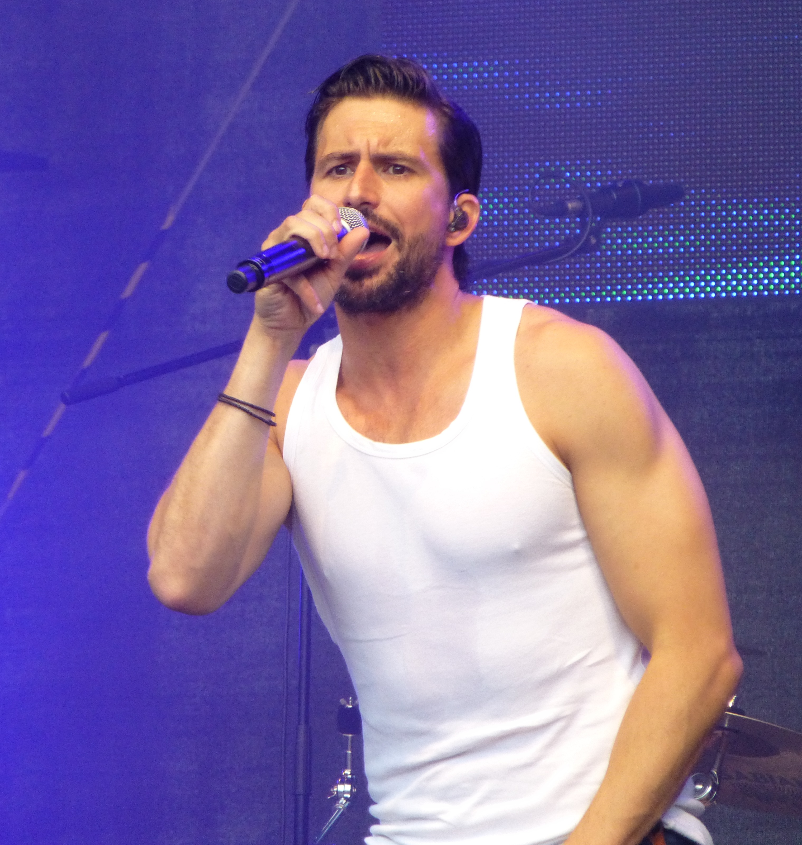 Tom Beck on the Radio Salü stage at the Saarspektakel 2014 in Saarbrücken